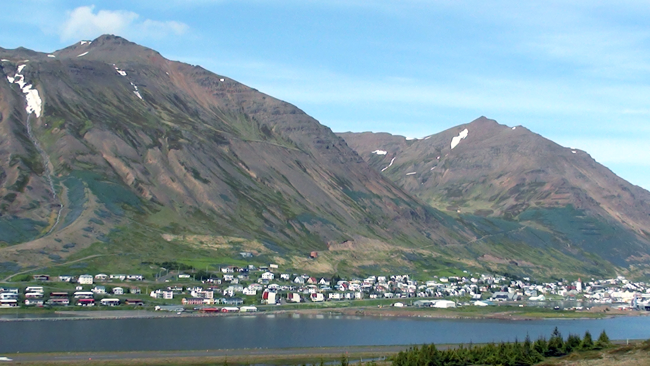 The small community of Siglufjörður in Iceland, with typical Icelandic mountains in the background. The black, small lines on the far right side of the image, on the green mountainside are barriers set up to prevent landslides from reaching the buildings. You can see the church on the lower right side of the image among the other buildings. The photo was taken from an area around the airfield outside Siglufjörður with a Sony video camera.